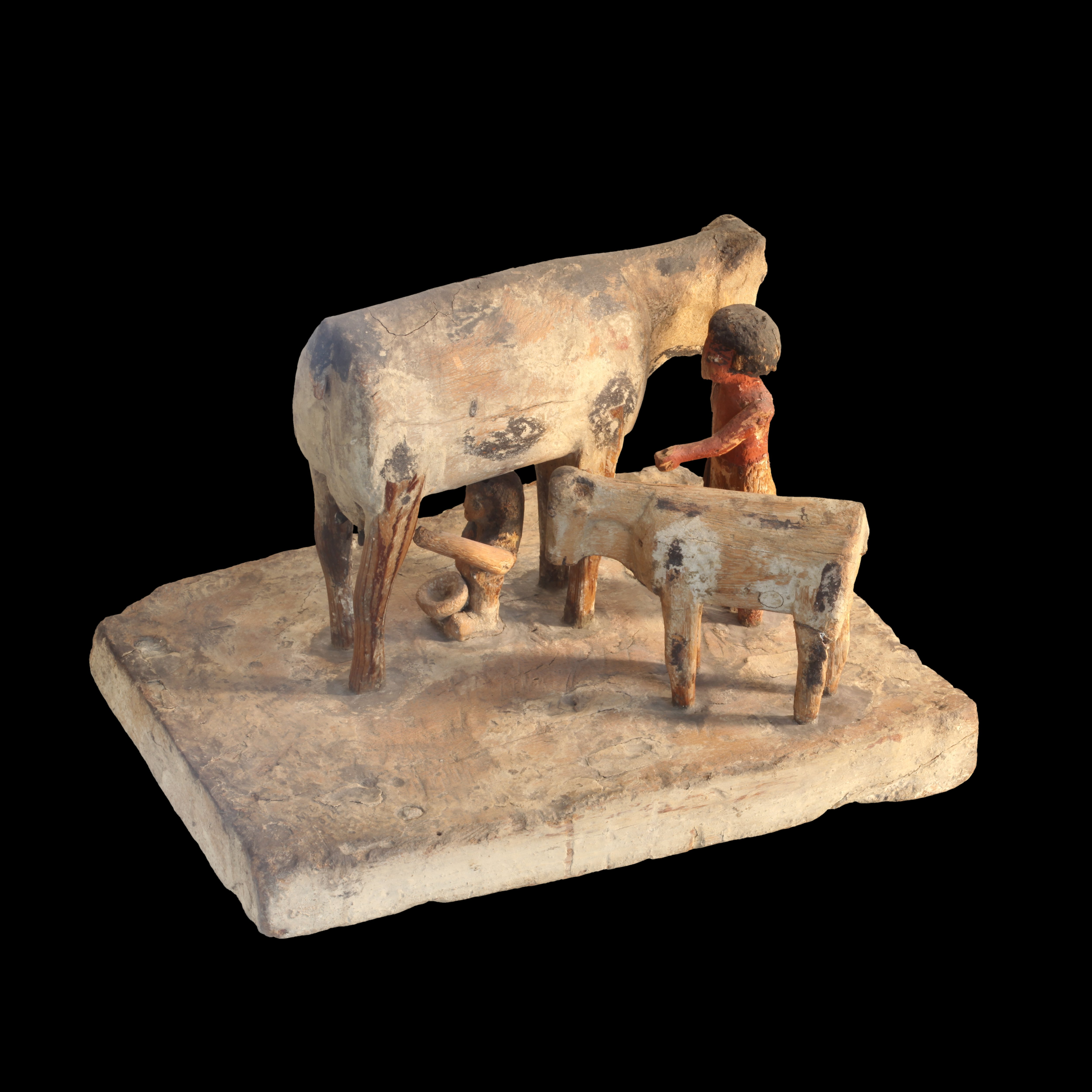 Funerary model: milking a cow.